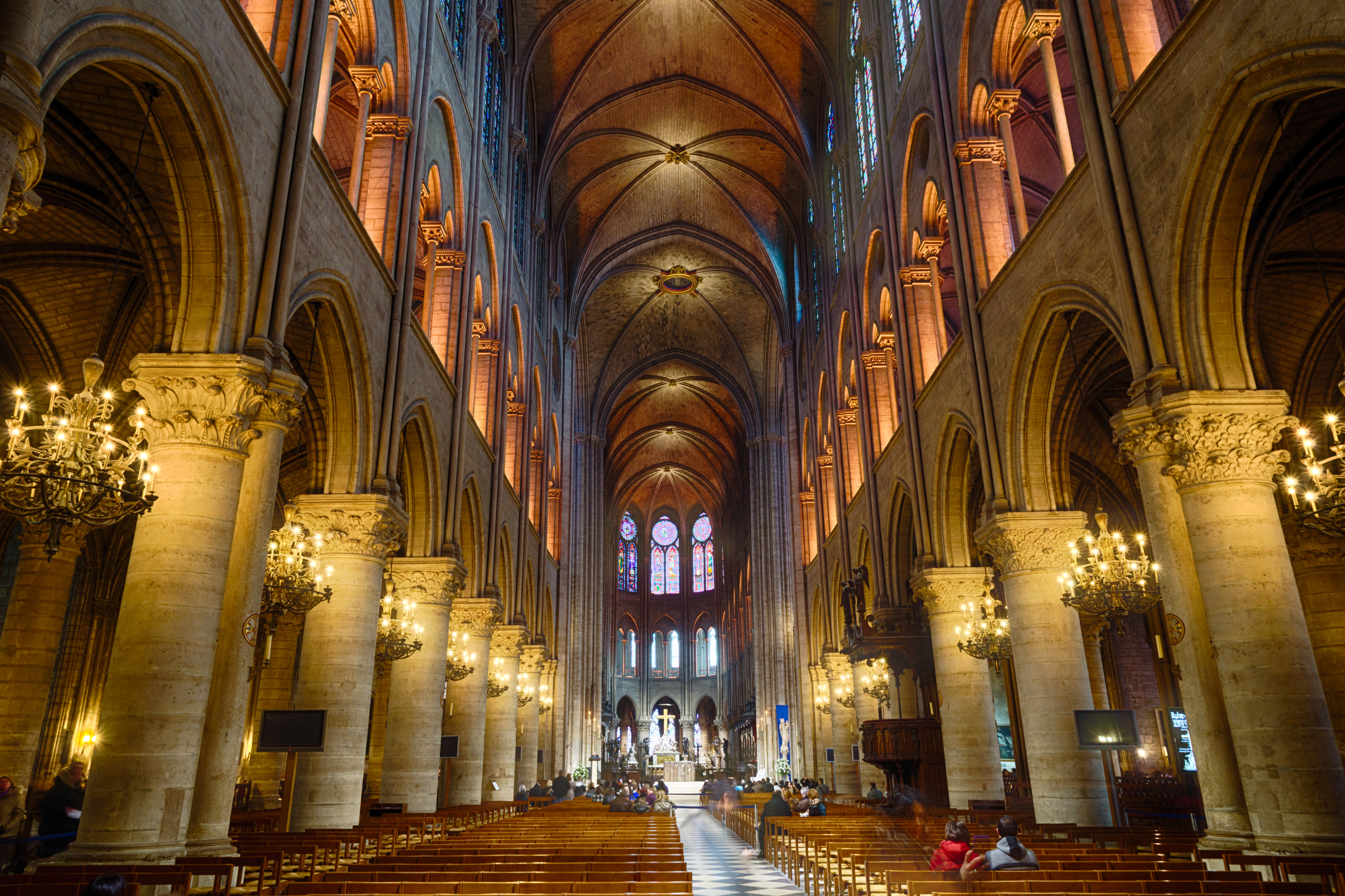 Notre Dame cathedral